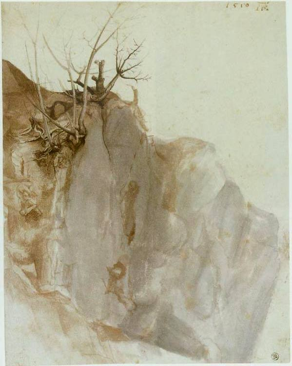 Quarry